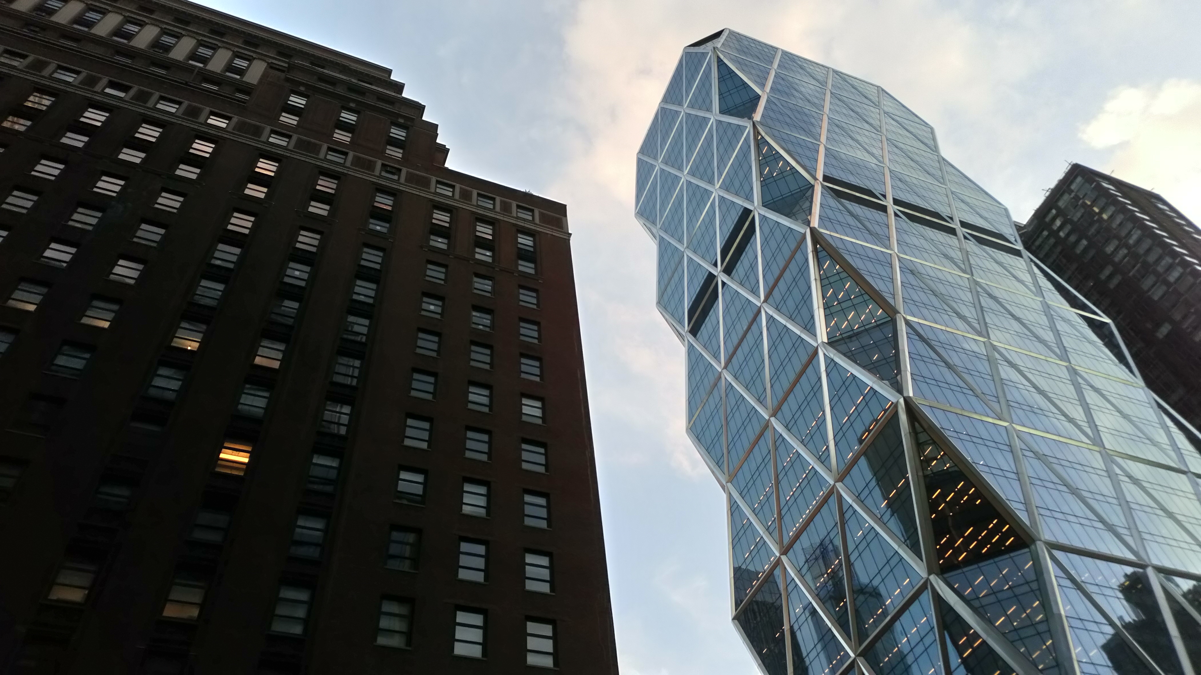 NYC, the United States of America